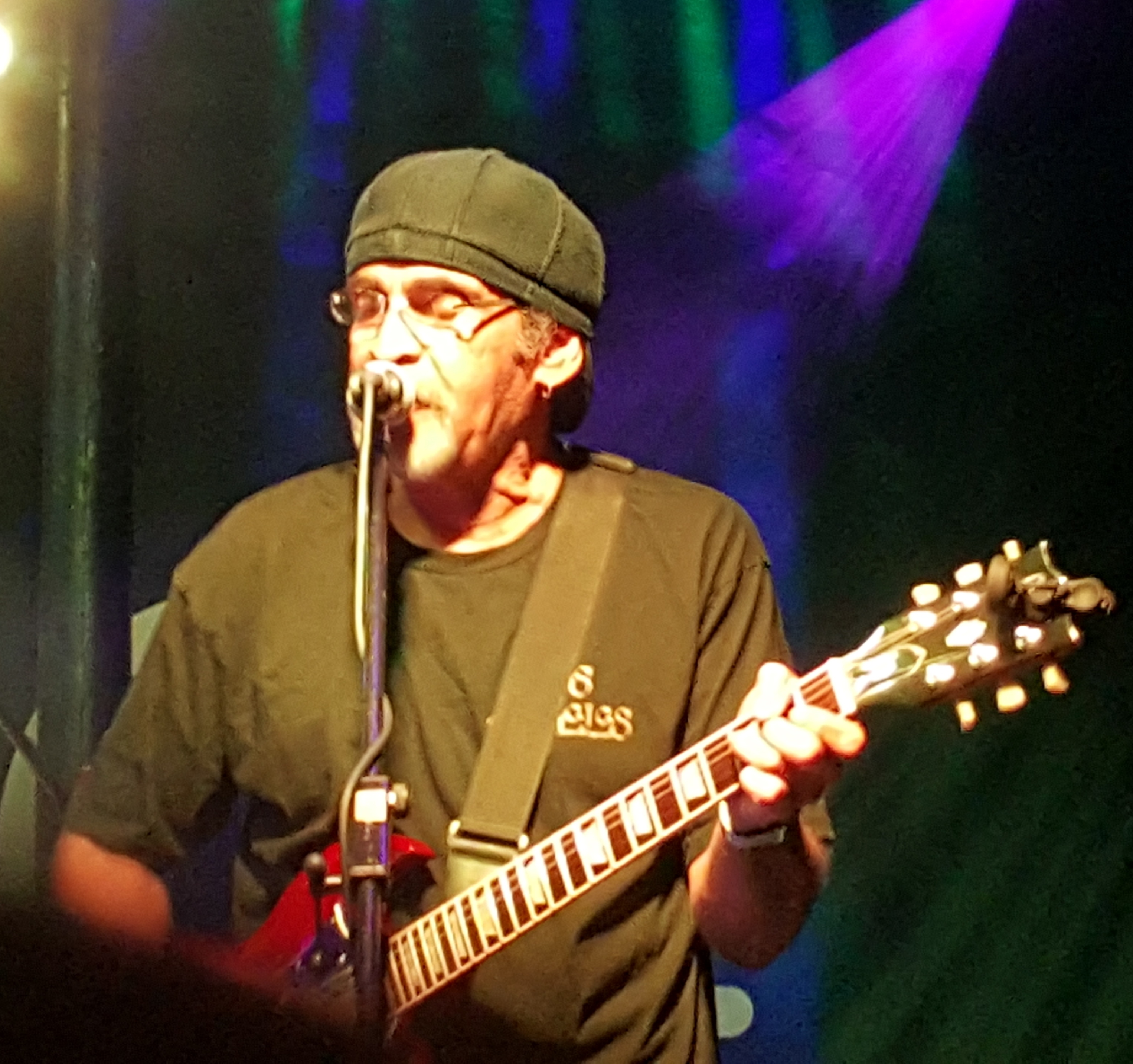 Guitarist Johnny Echols performing in Bristol, England, 2019